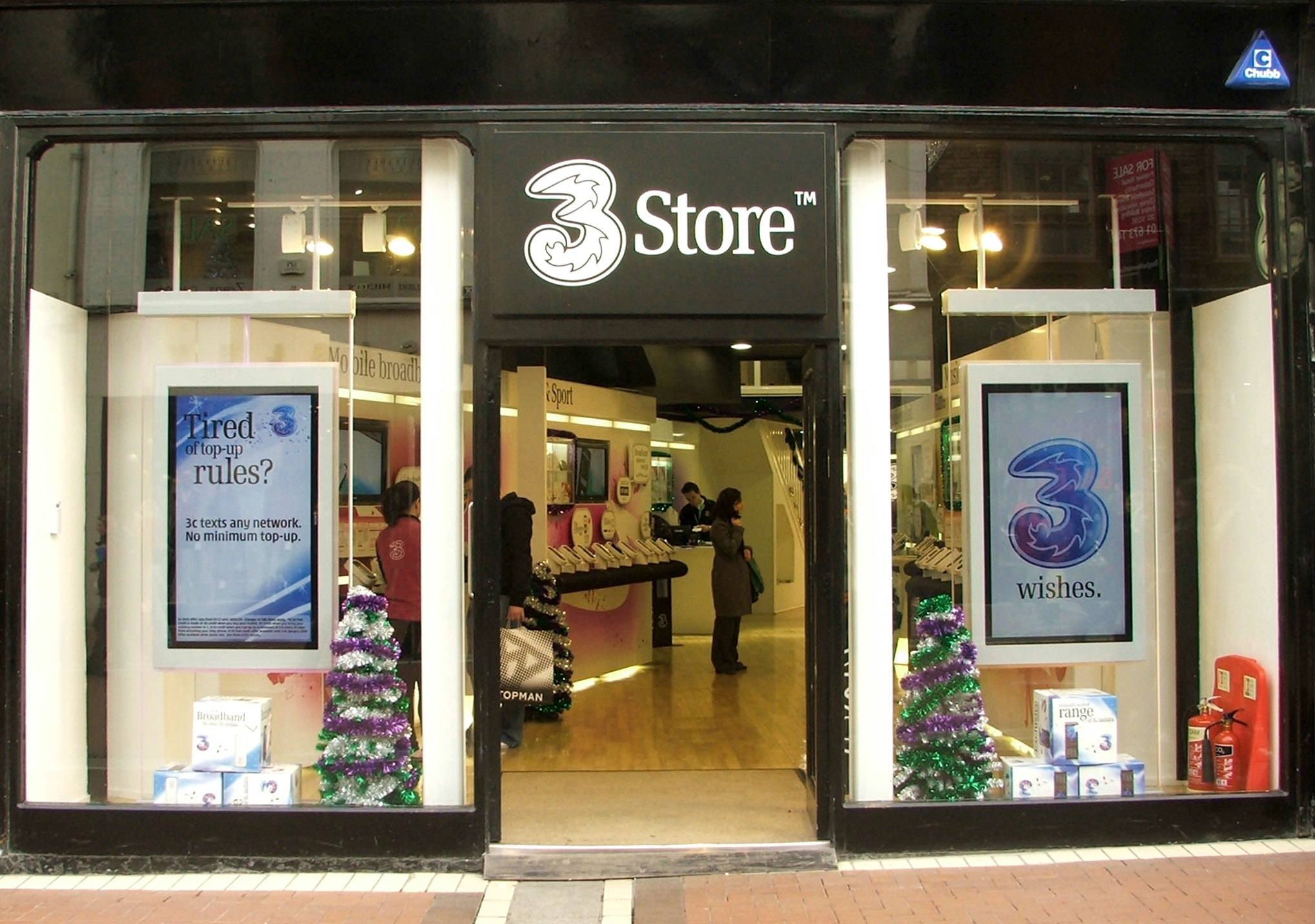 3 Store on Grafton Street, Dublin, Ireland.